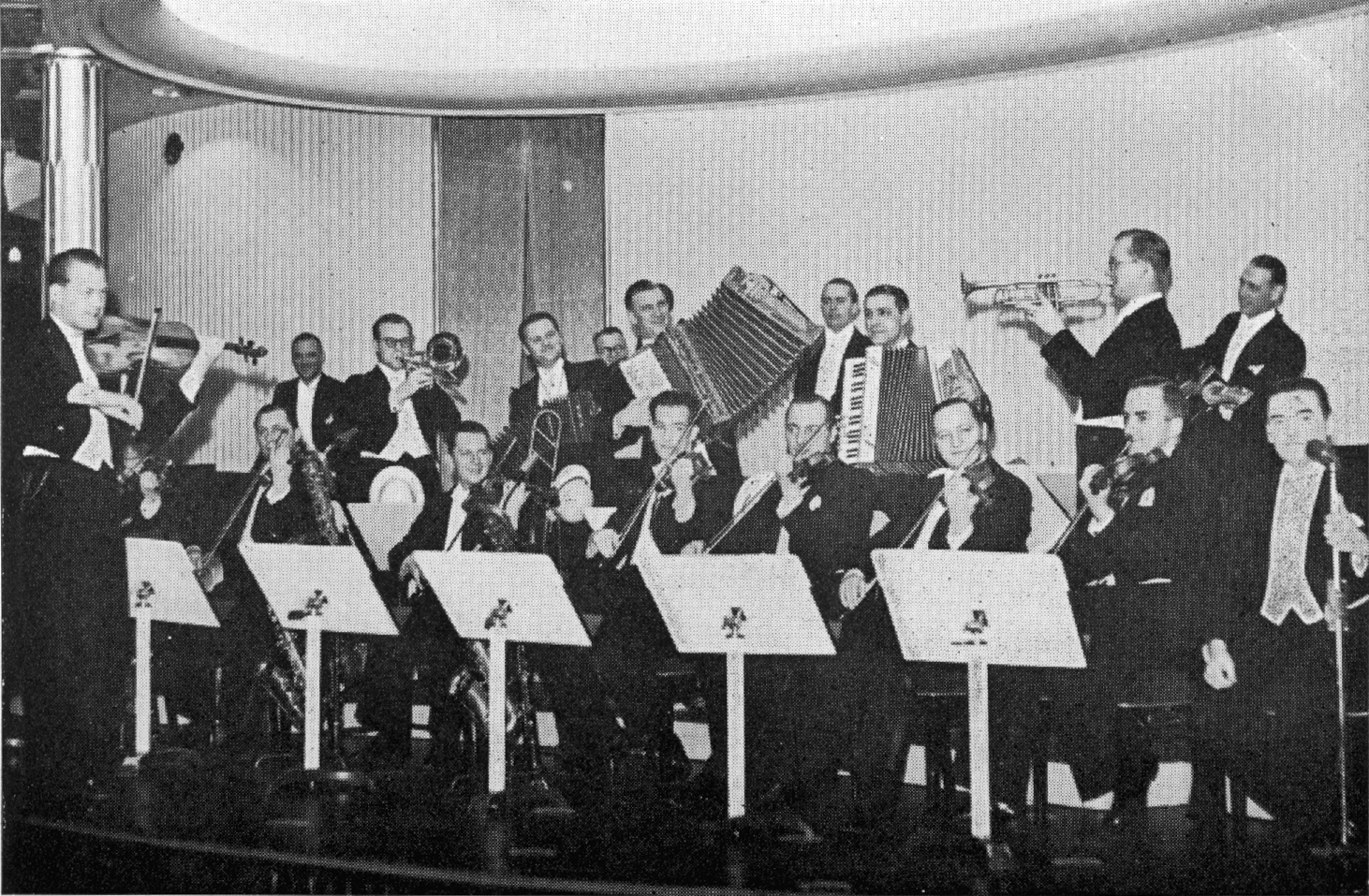 Danish bandleader Teddy Petersen (1892-1991) with his orchestra, probably at restaurant Wivex at Tivoli in Copenhagen. Petersen is standing to the far left with violin.